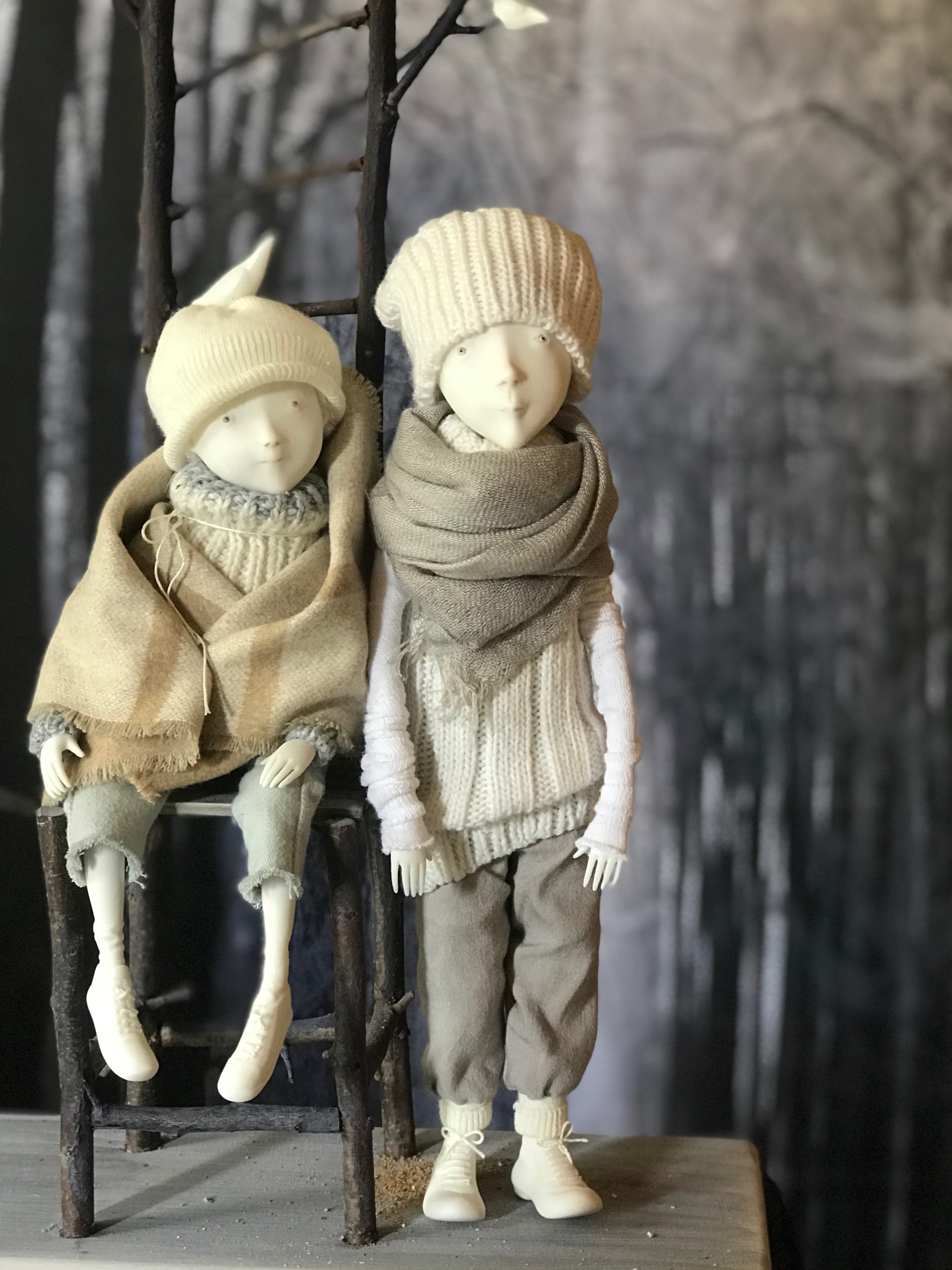 “The Princess coming...”project 5-th Europium Professional DollArt Festival,Riga,Latvia